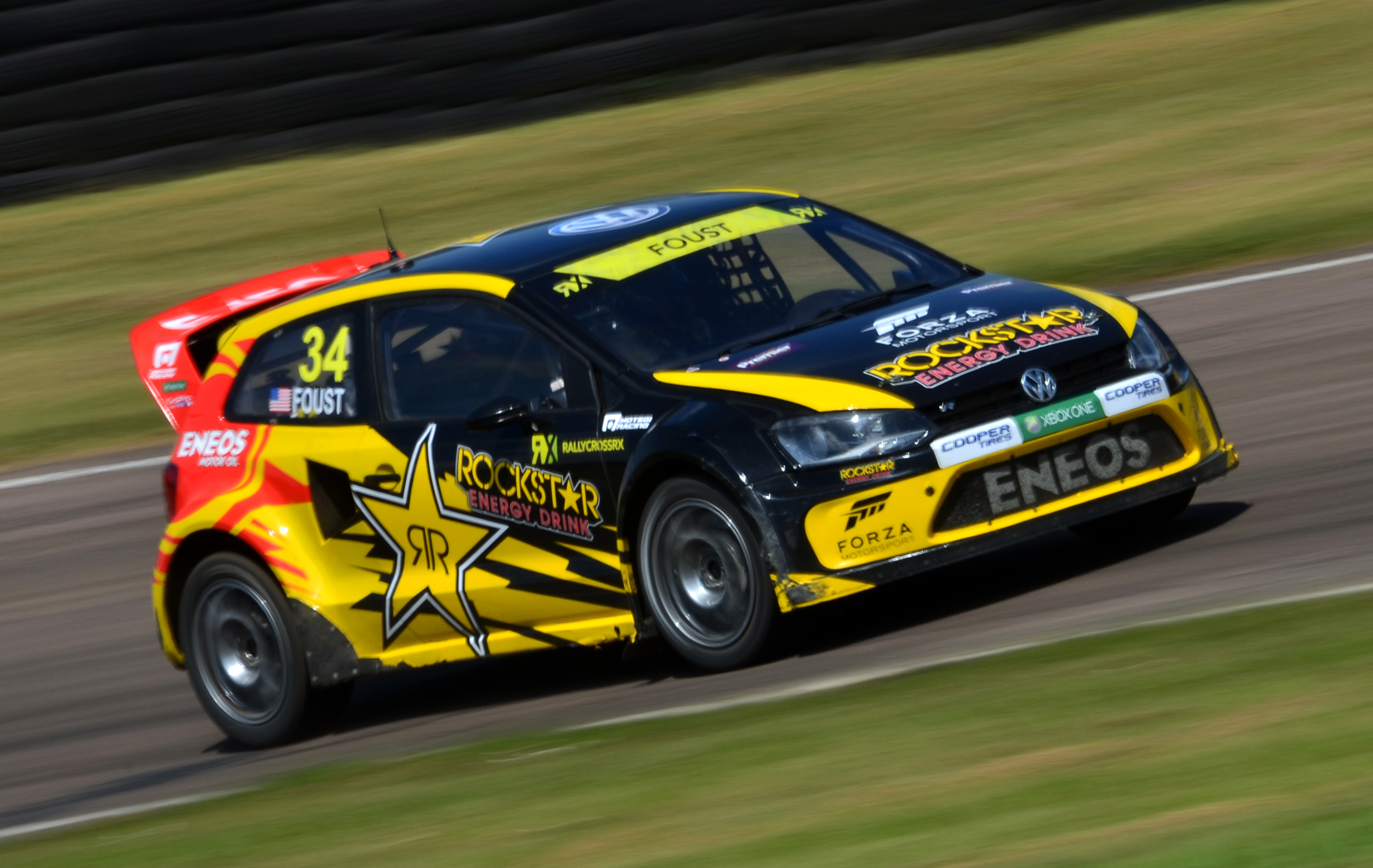 Tanner Foust in his Volkswagen Polo at Lydden Hill. Round 2 of the 2014 FIA World Rallycross Championship.